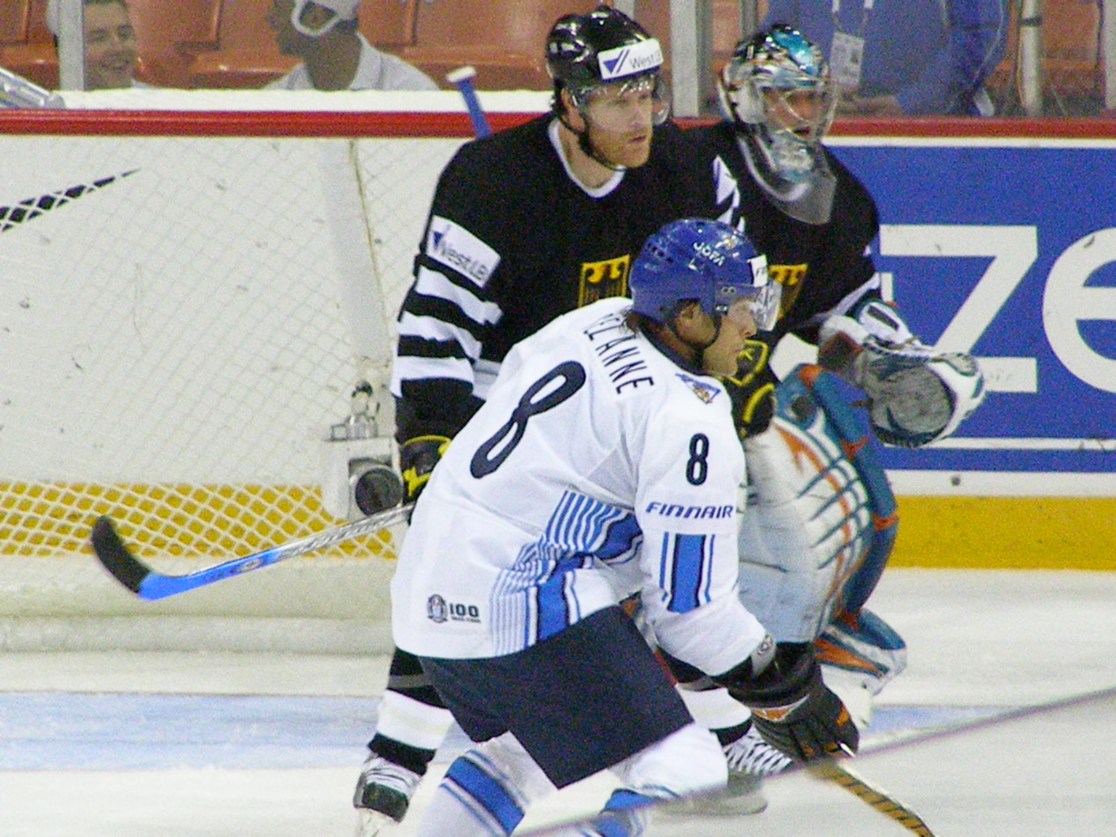 Teemu Selanne / Germany vs Finland (IIHF World Hockey Championship in Halifax NS)